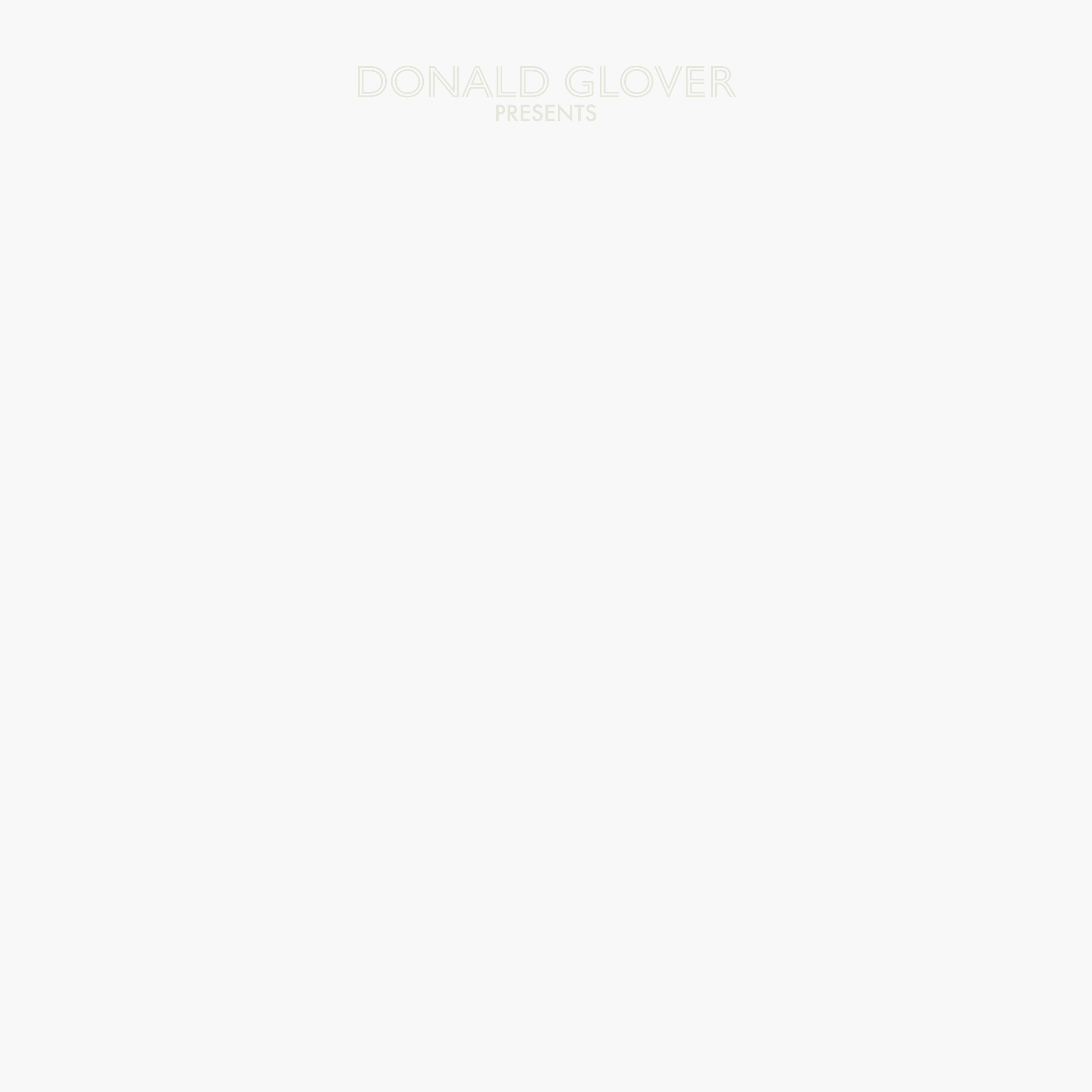 The continuous version’s cover of 3.15.20 by Childish Gambino